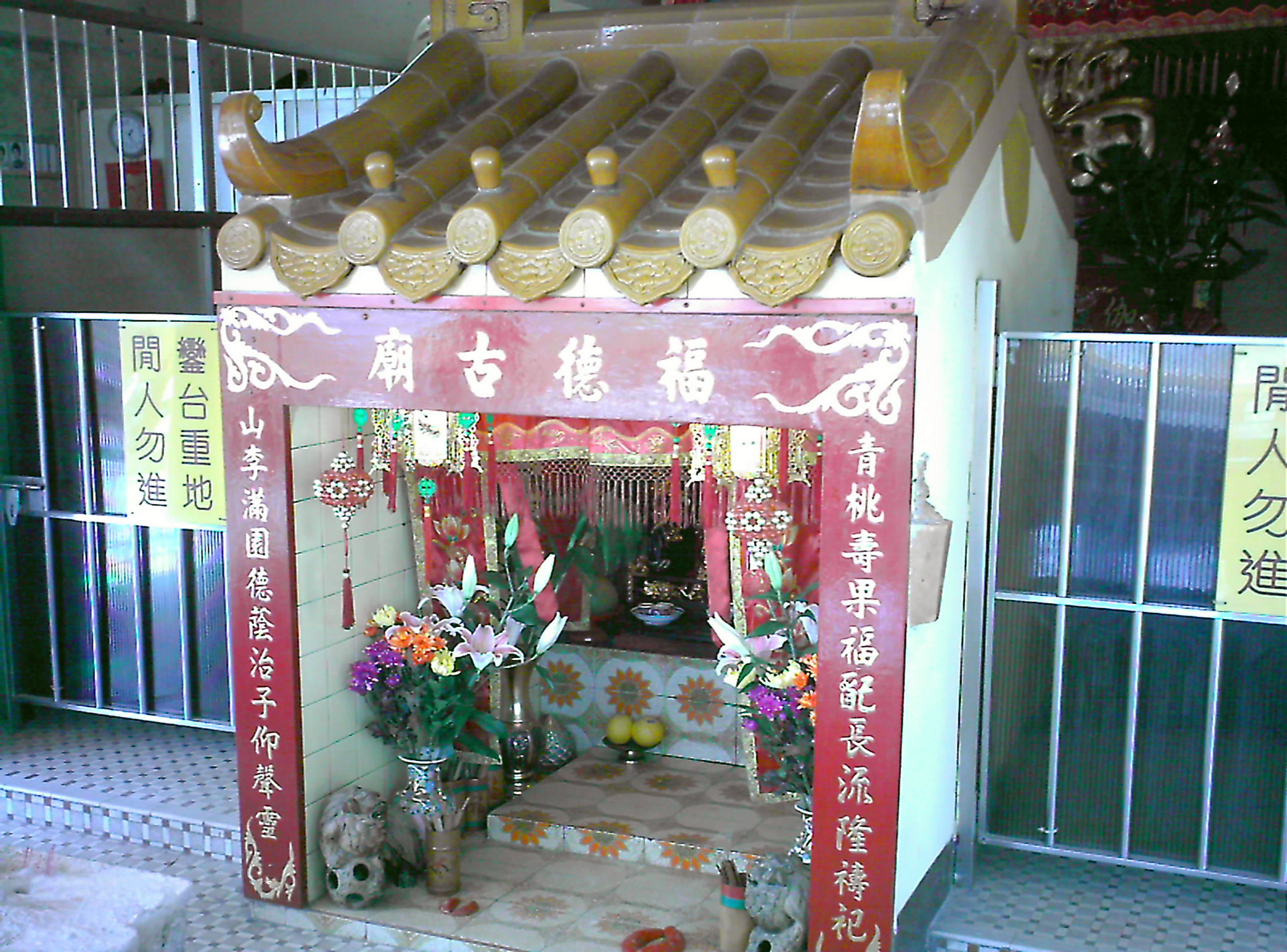 Fuk Tak Buddhist Hall, Hong Kong and Kowloon Fuk Tak Buddhist Association 中文（香港）: 港九福德念佛社，福德古廟